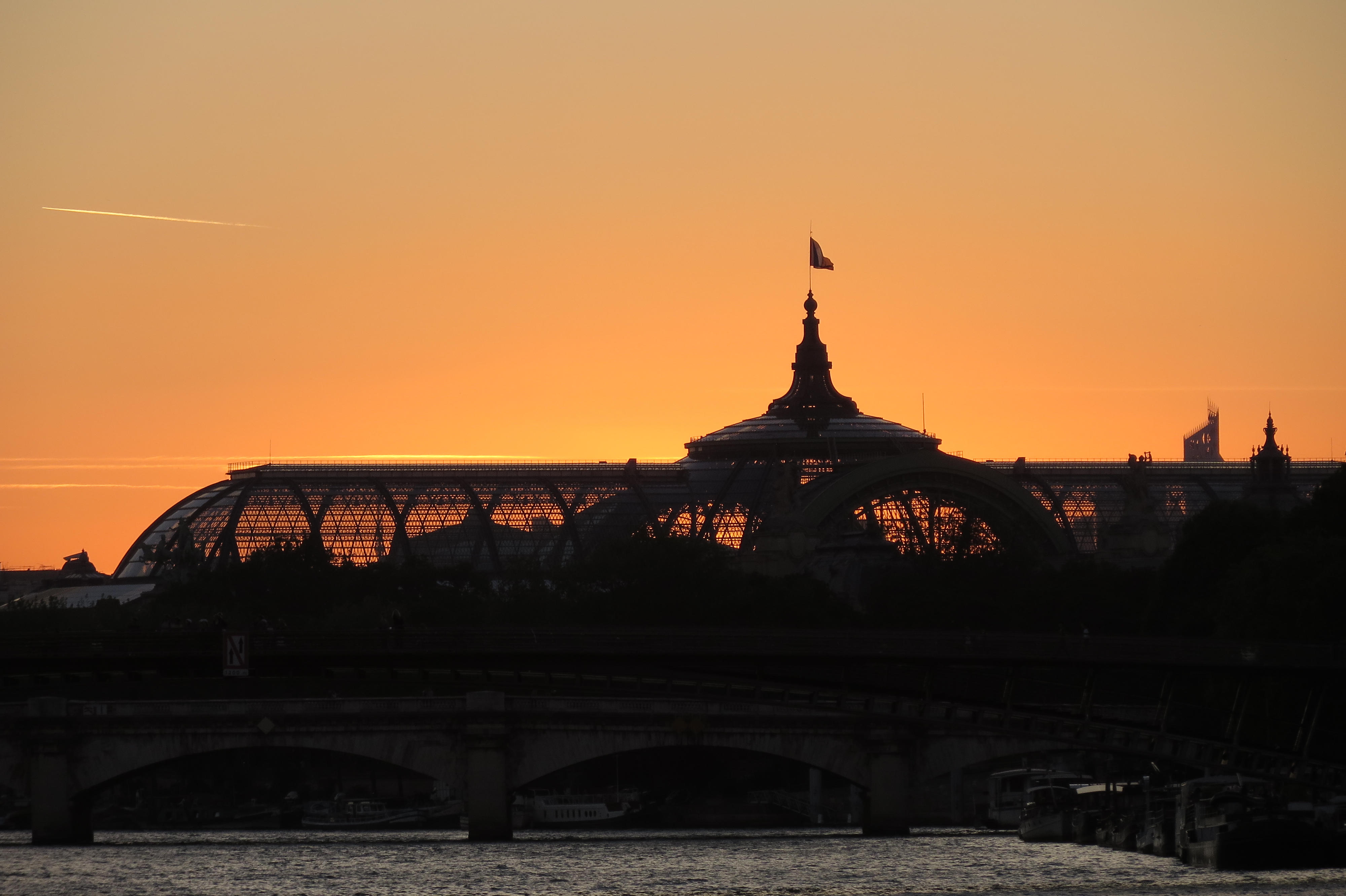 Grand Palais, Paris